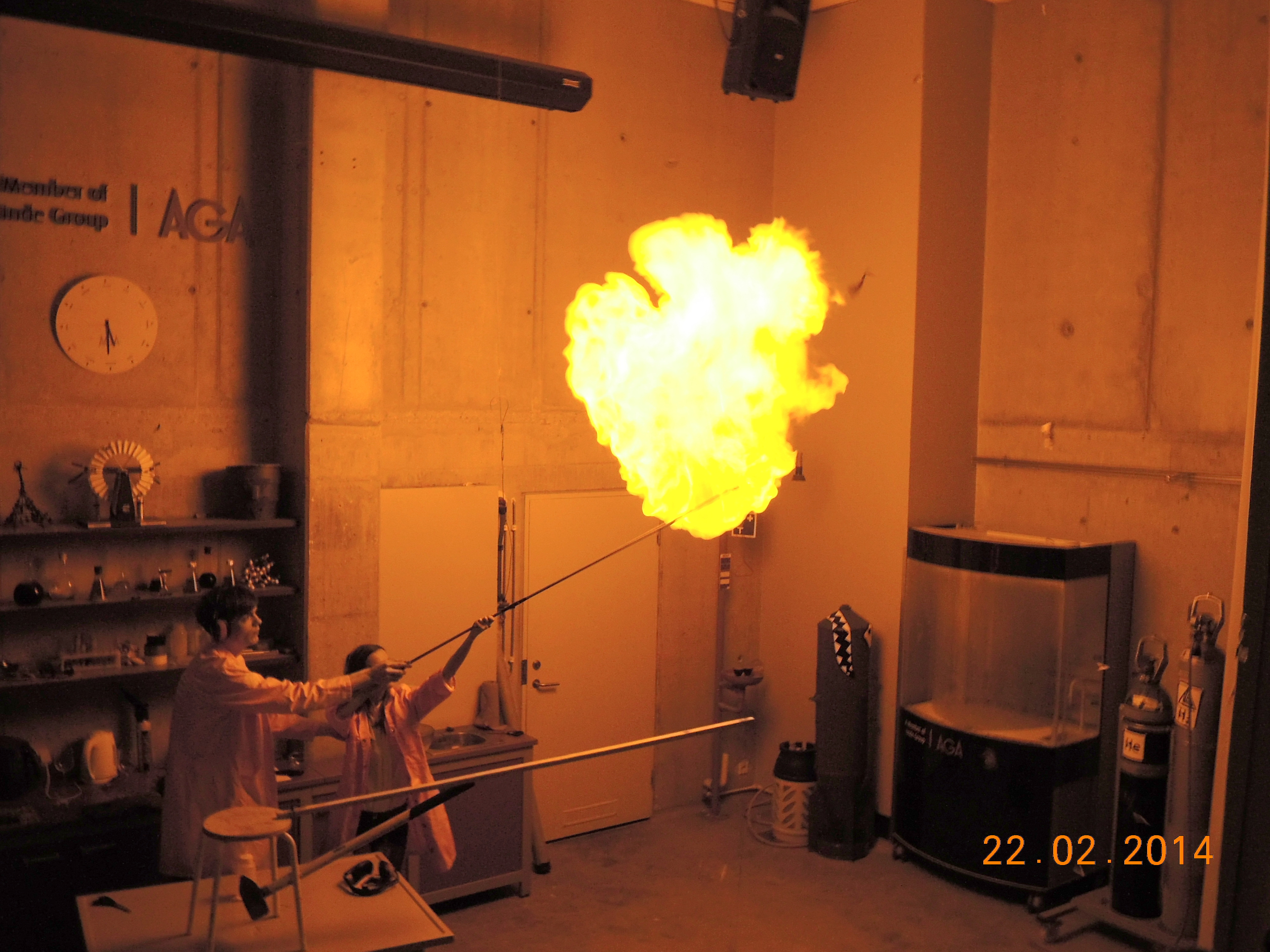 Kaboom! Moment from science theatre perfomance of Ahhaa science centre in Tartu, Estonia